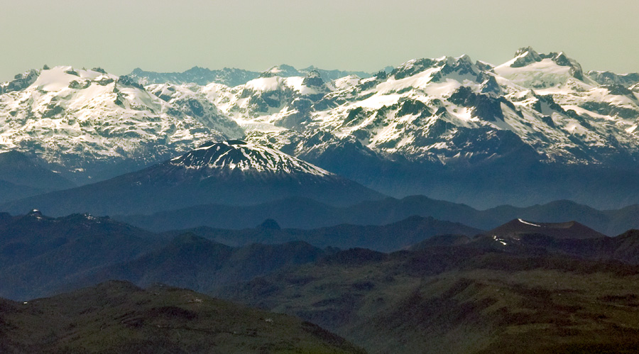 The Hornopirén and Hualiaque (also known as Apagado) volcanoes, seen from a commercial flight.